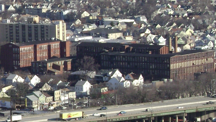 The red brick Reinhardt Mills, a National and State Historic Place located in Paterson, New Jersey, is seen from Garret Mountain Reservation on First Watchung Mountain. The large industrial complex, which has been partly renovated, takes up an entire block. In the image, Interstate 80 can be seen in the foreground.